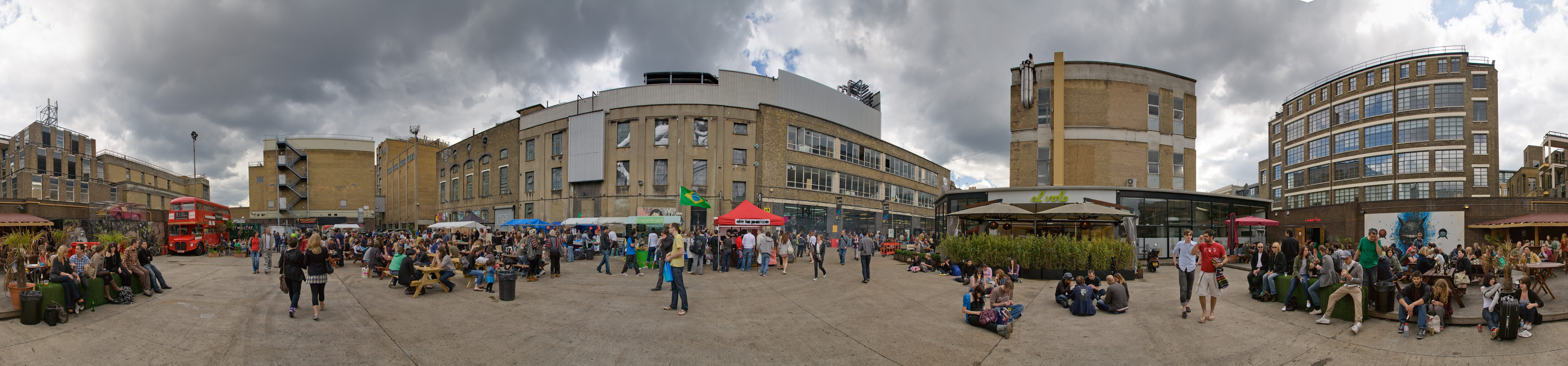 The rear courtyard area of the Sunday UpMarket, just off Brick Lane in East London, England. Taken as a 11 segment 360 degree panoramic view with a Canon 5D and 24-105mm f/4L IS lens.